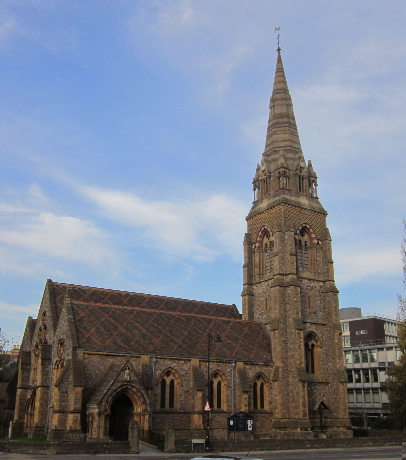 Church of St John the Evangelist, Taunton